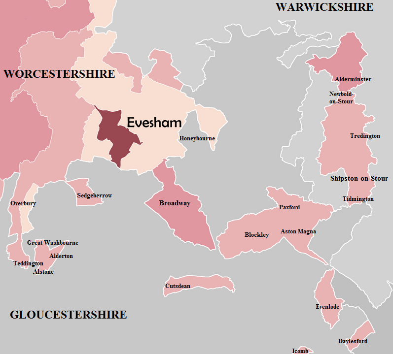 Map of the exclaves and enclaves within South and South East Worcestershire. Kain, R.J.P., and Oliver, R.R. (2001) "Historic parishes of England and Wales: Electronic Map - Gazetteer - Metadata", Colchester: History Data Service. ISBN 0 9540032 0 9. Source data for Boroughs: H.M.S.O. Boundary Commission Report 1832 (courtesy of